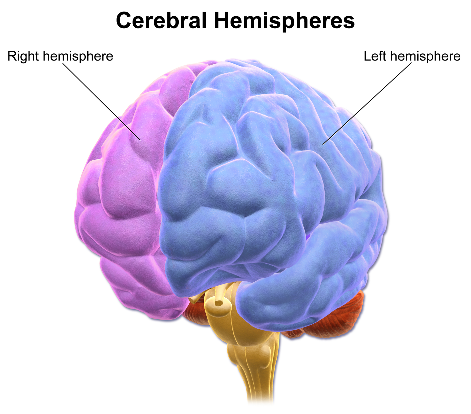 Cerebral Hemispheres. See a full animation of this medical topic.